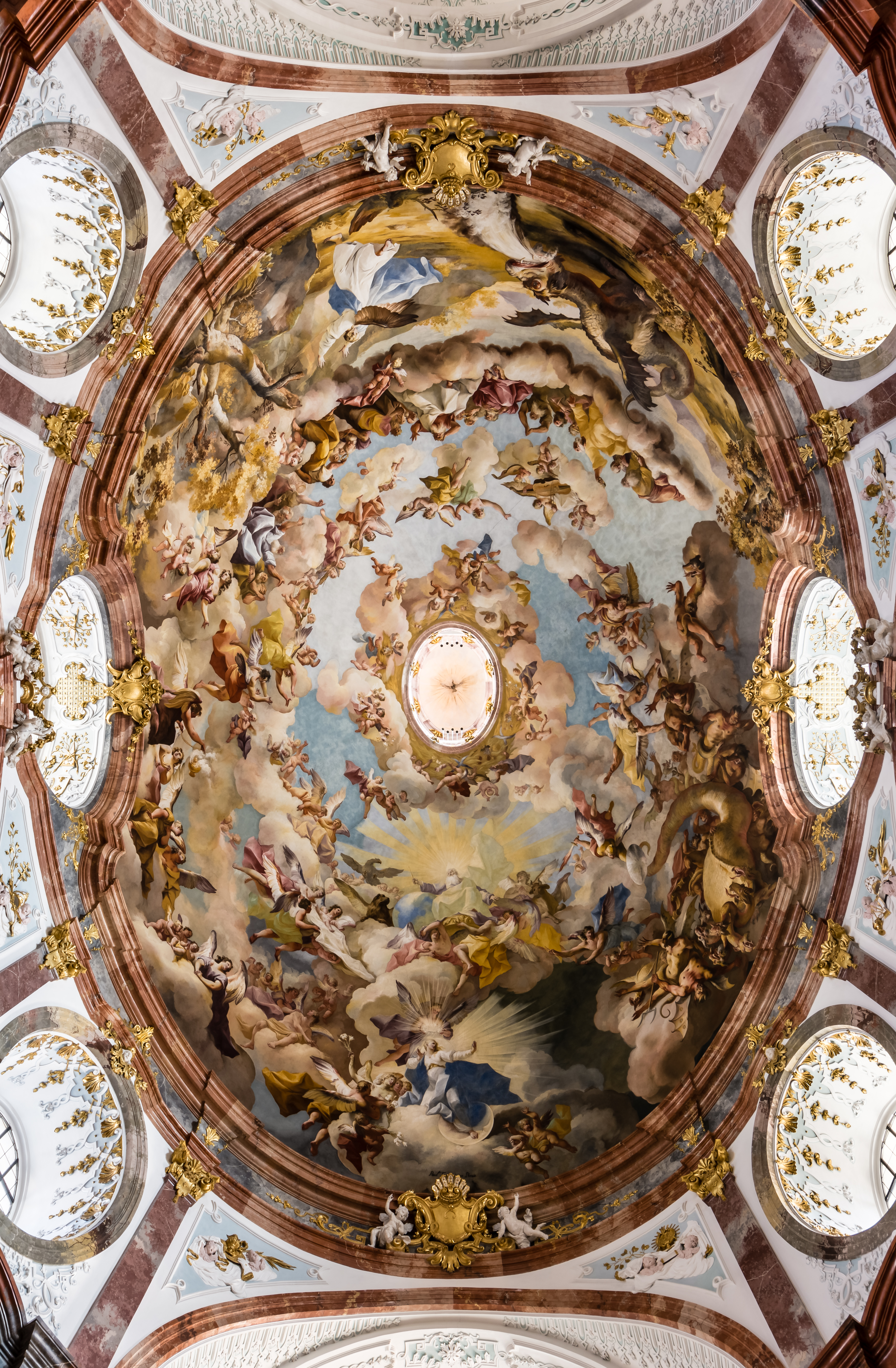 Fresco in the dome of Altenburg Abbey Church (Lower Austria) by Paul Troger (1733): The apocalyptic vision of St. John